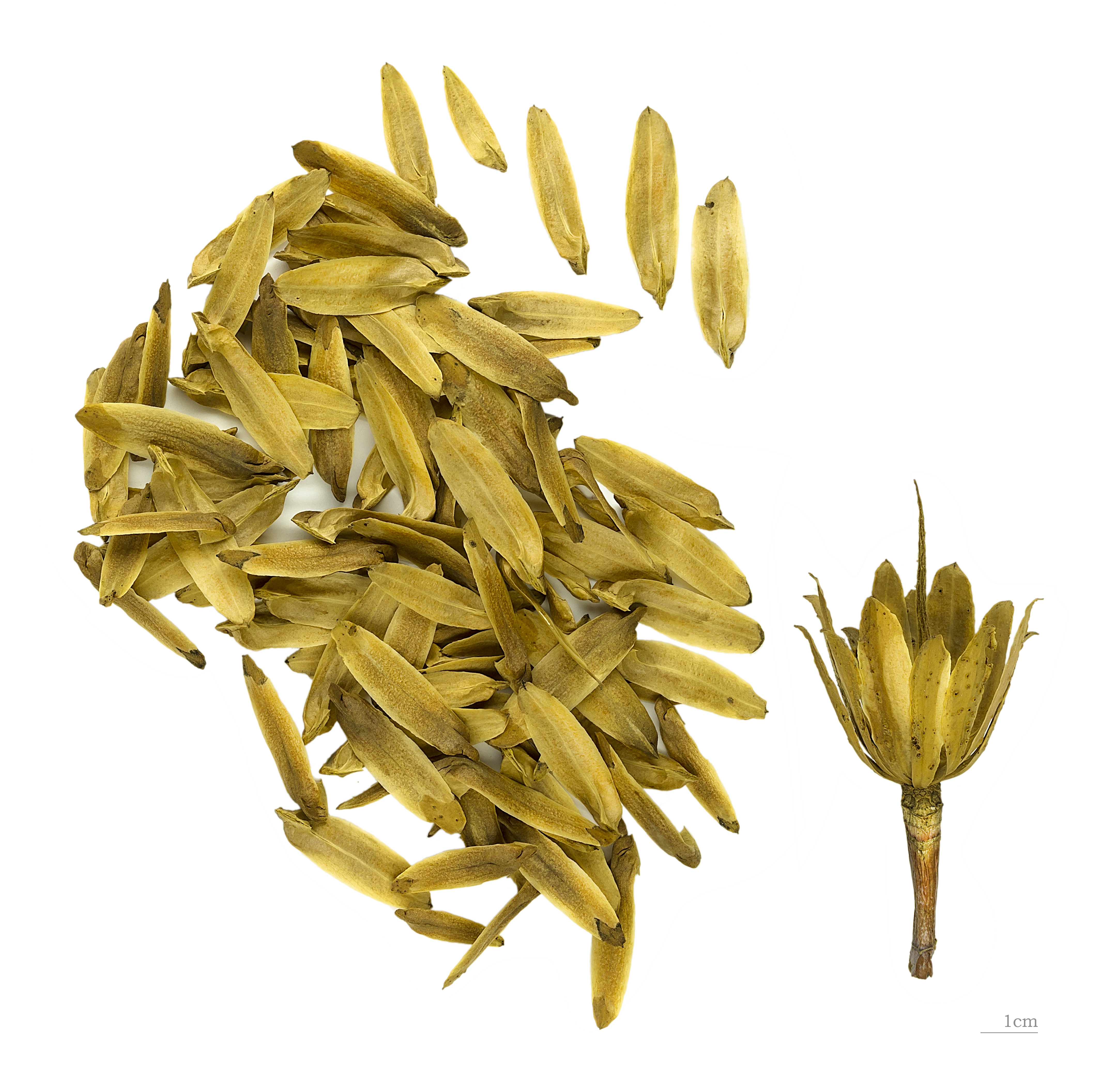 American tulip tree, fruits and seeds